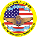 Logo of the DEA Aviation Division / Office of Aviation Operations (Drug Enforcement Administration)